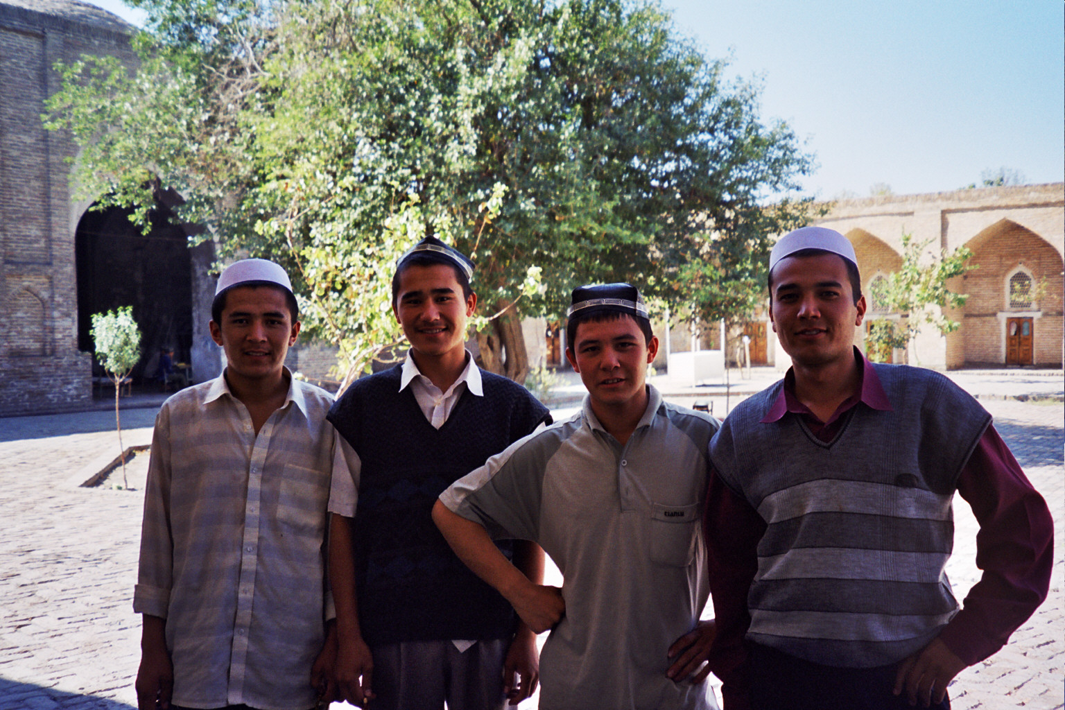 students at the school. these guys were very friendly though they spoke no english.